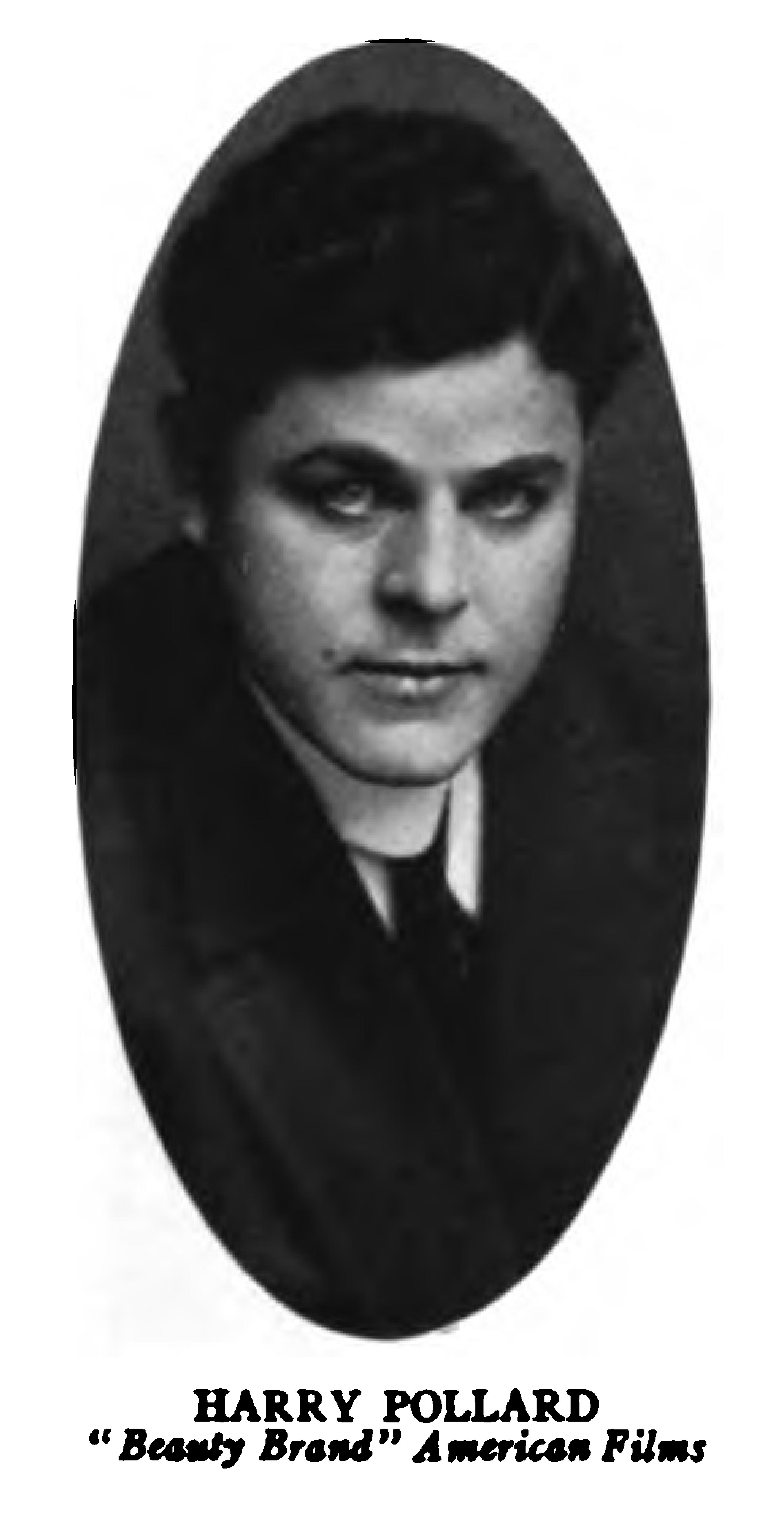 Harry A. Pollard (23 January 1879, Republic City, Kansas - 6 July 1934, Pasadena California) was an American silent film actor, director, and screenwriter.